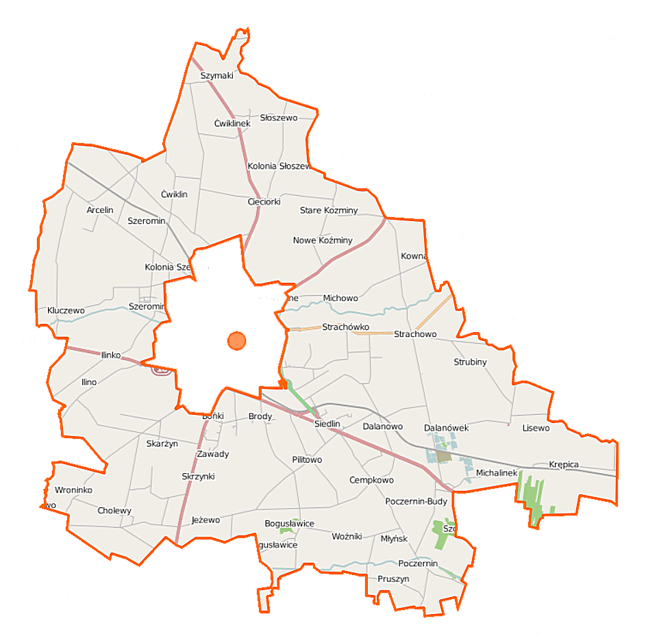 Map of Gmina Płońsk, Poland This map of Płońsk (gmina) was created from OpenStreetMap project data, collected by the community. This map may be incomplete, and may contain errors. Don't rely solely on it for navigation. Border coordinates52.705120.2760←↕→20.534152.5513